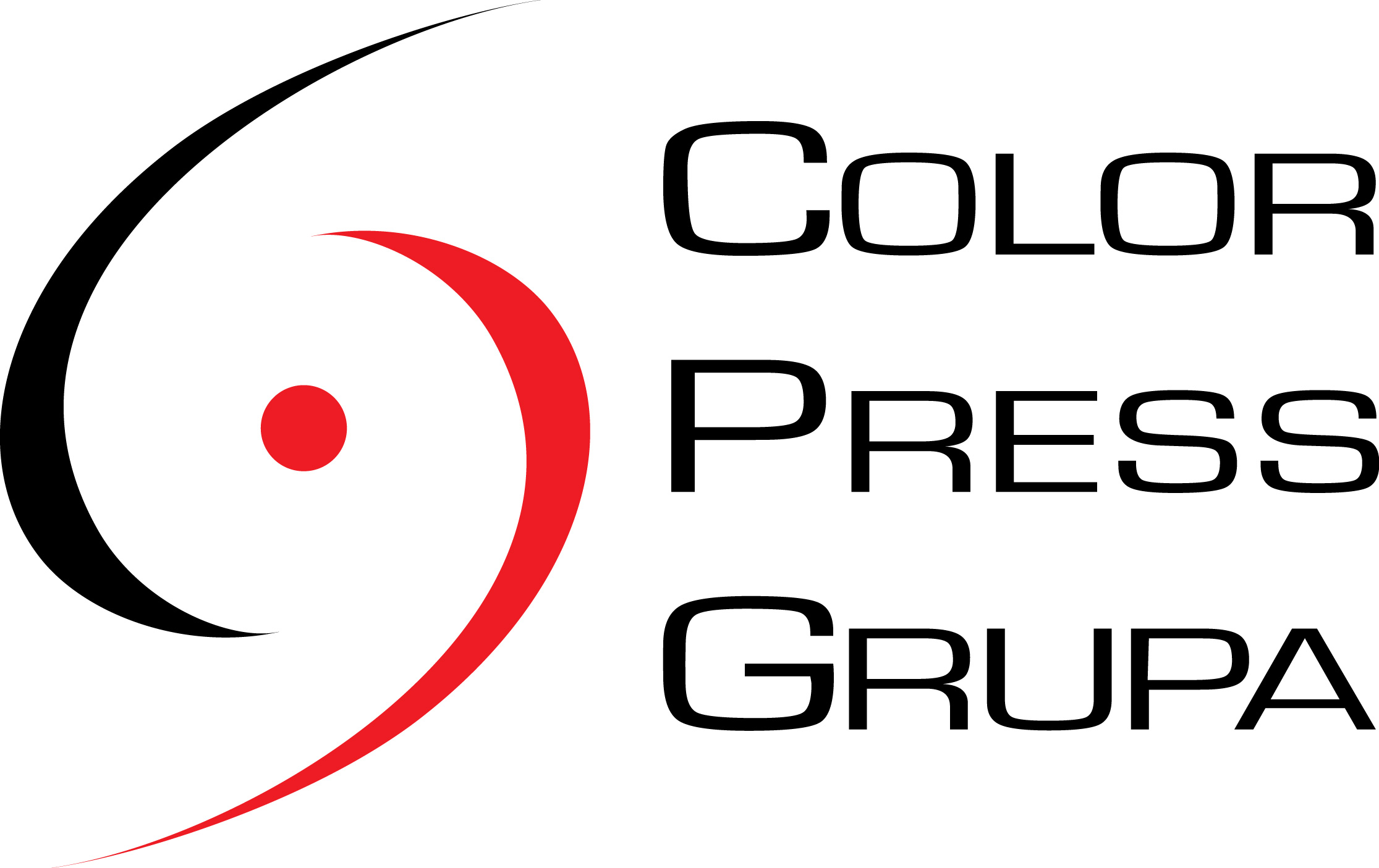 Color Press Grupa, logo